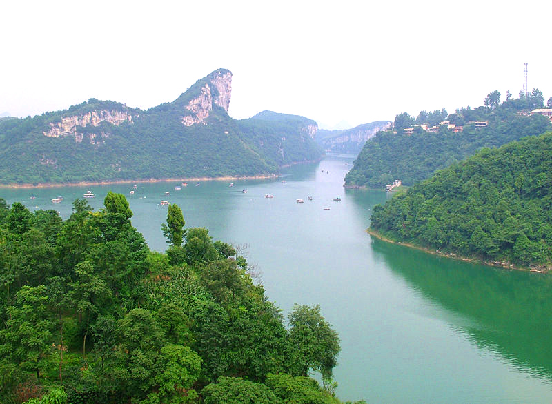 Huaxi — far view of Banbianshan, near Guiyang, Guizhou province. Olemissius Zhang